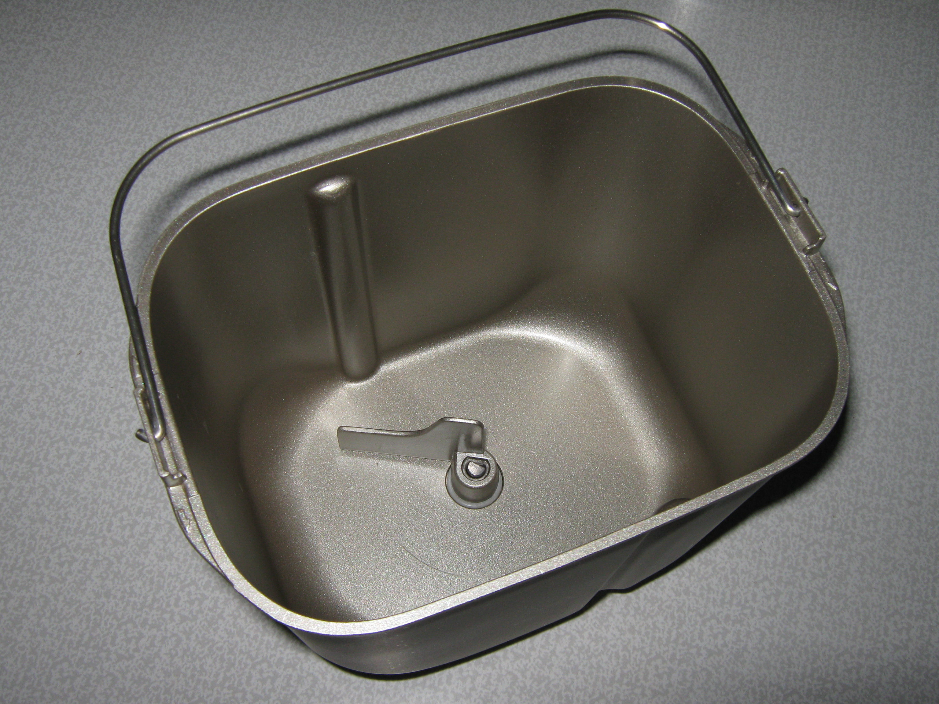 Bread machine. The Bread Pan.